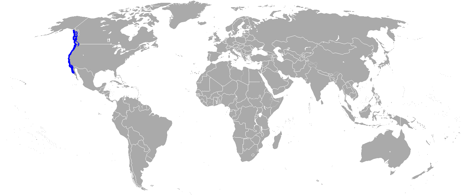 Distribution of the slender sole, Lyopsetta exilis, using a blank map of the world showing 2008 borders. Based on File:BlankMap-World.png; as it is PD, this is too.